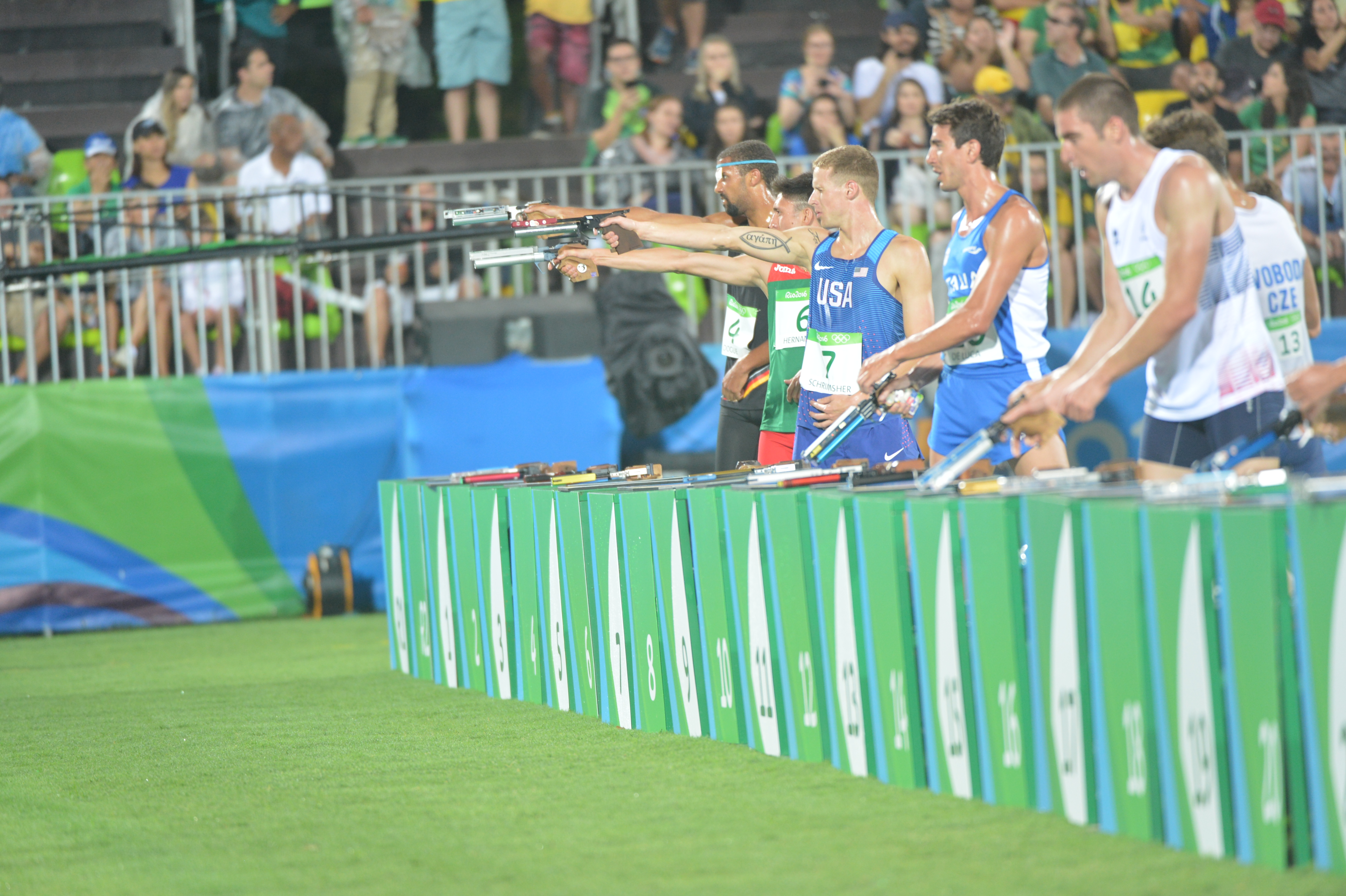 Sgt. Nathan Schrimsher of the U.S. Army World Class Athlete Program finishes 11th in the men's Modern Pentathlon event Aug. 20 at the Rio Olympic Games in Rio de Janeiro. U.S. Army photo by Tim Hipps, IMCOM Public Affairs #SoldierOlympians #ArmyOlympians #ArmyTeam #TeamUSA #RoadToRio #ArmyStrong #GoArmy #WCAP #ArmyWCAP